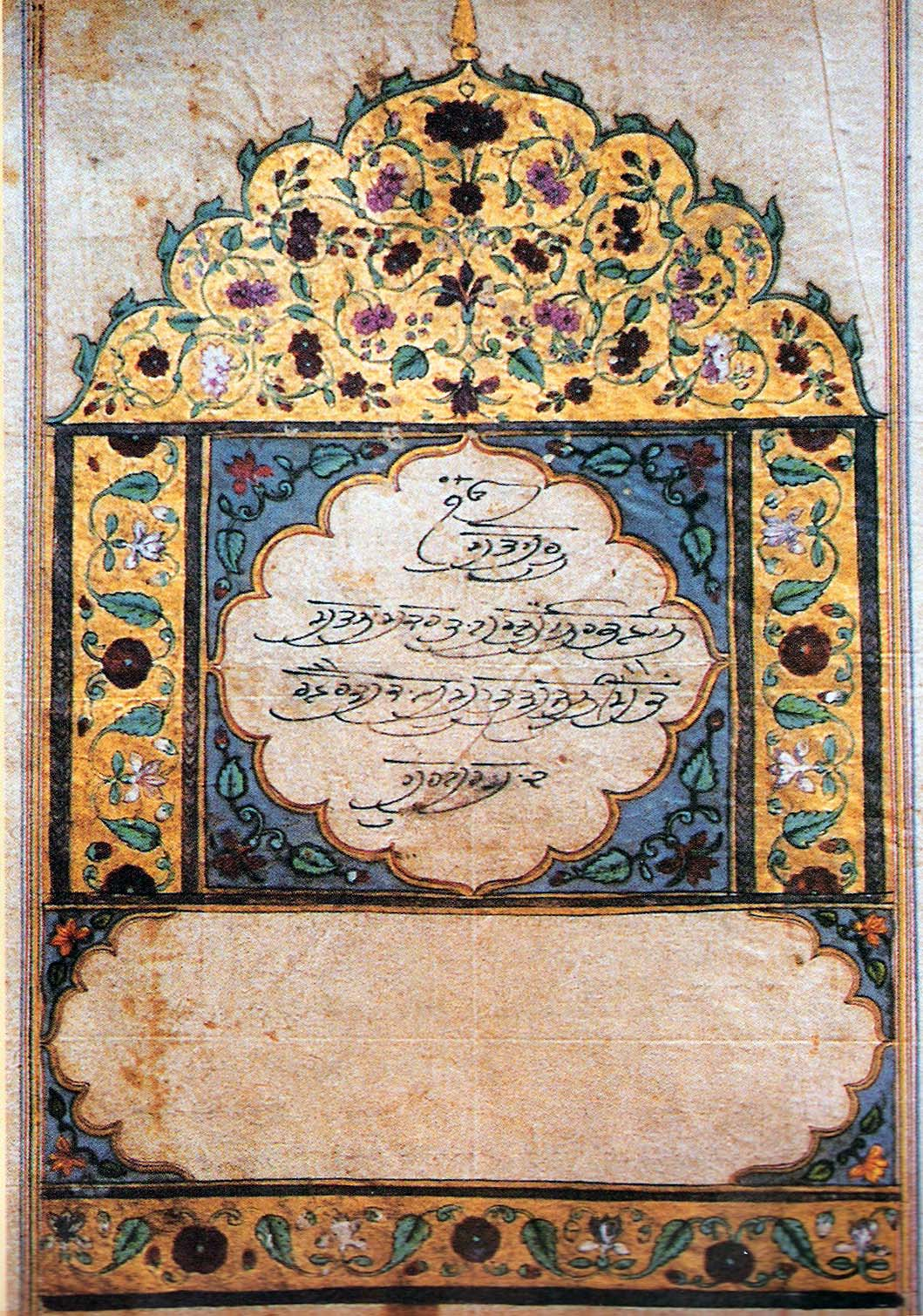 Illuminated Adi Granth folio with nisan of Guru Gobind Singh. The manuscript is of the Lahore recension, late 17th to early 18th century. Gold and colours on paper; folio size 360 x 283mm, illumination size 256 x 193mm. Collection of Takht Sri Harimandir Sahib, Patna. Photograph: Jeevan Singh Deol. Interesting Note: The Chakar and Kirpan drawn above the Ek Onkar Presumed to be in the Public Domain because the photo is of text that is extremely old.